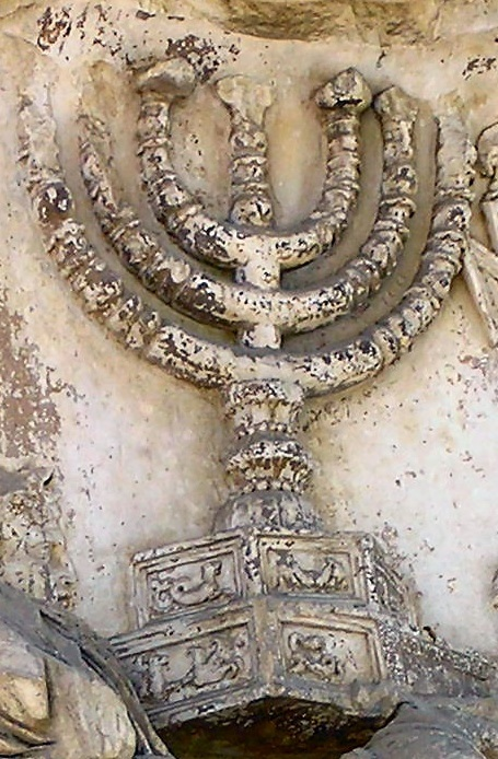 Menorah represented on the Arch of Titus in Rome (image cropped from wiki/File:Fra-titusbuen.jpg)